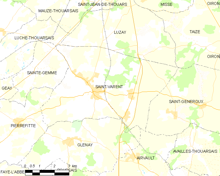 Map of French municipality Saint-Varent